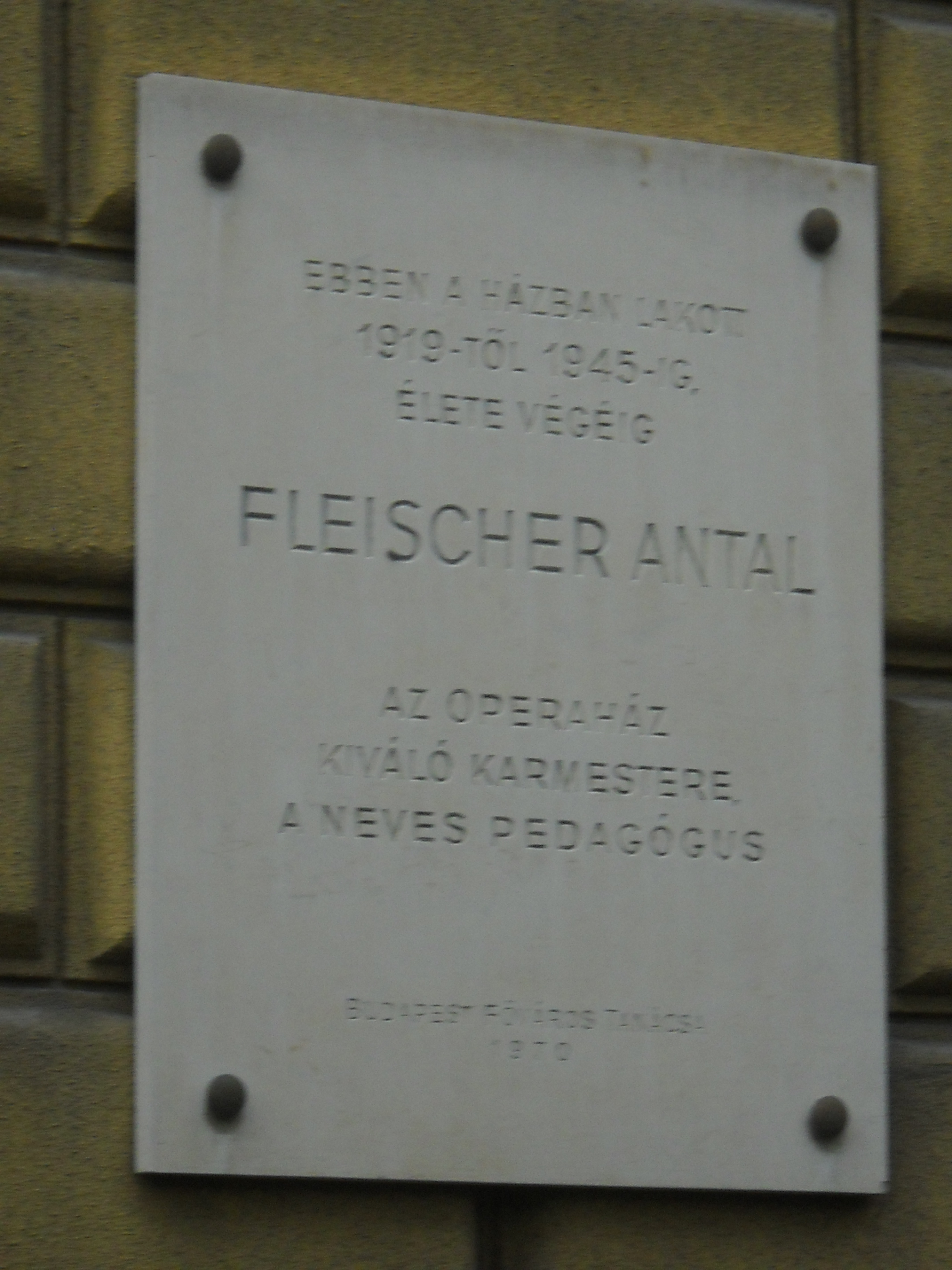 Commemorative plaque of the conductor Antal Fleischer in Budapest District VI, Városligeti Alley No 2